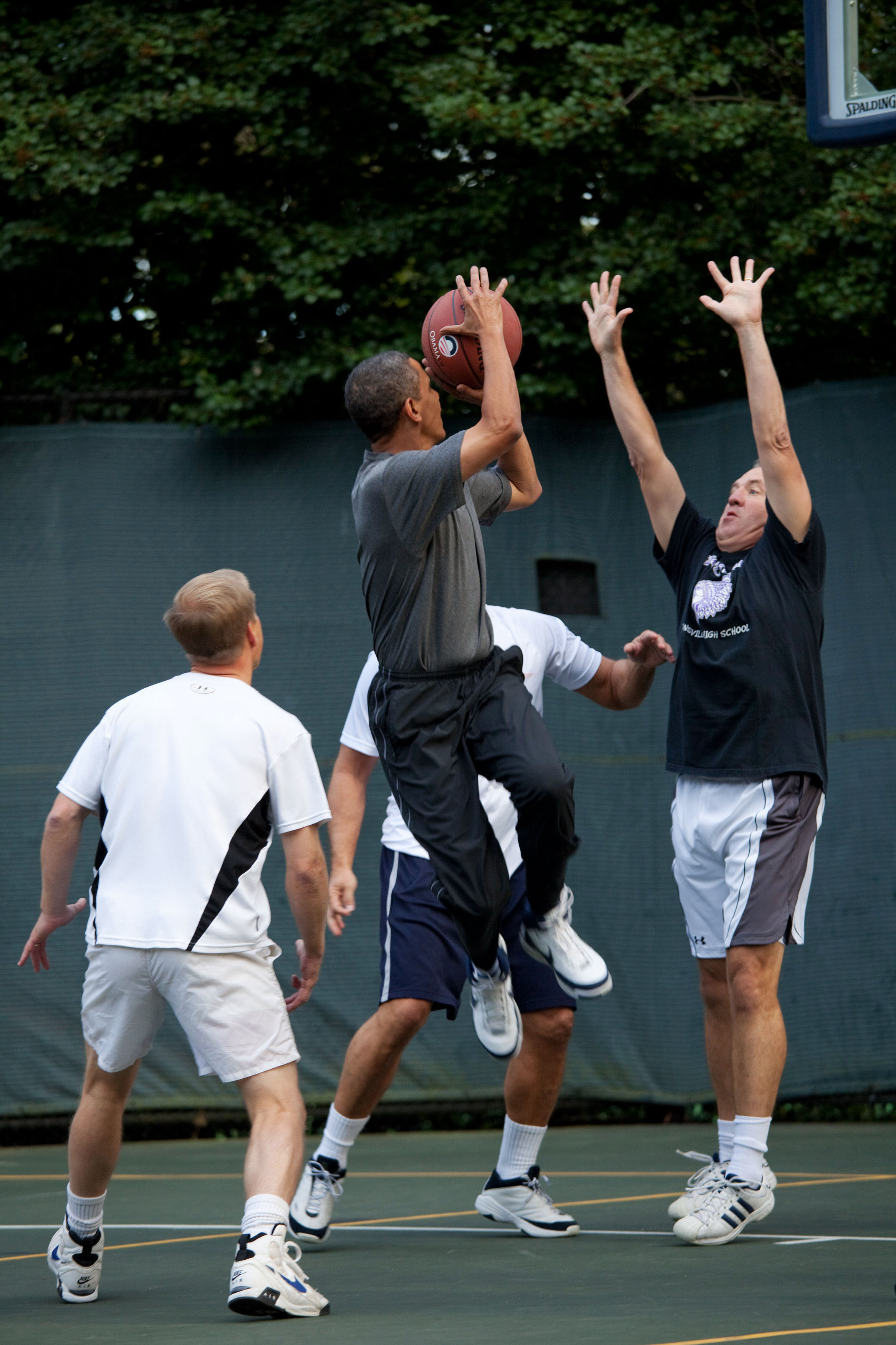 President Barack Obama takes a shot during a game with Cabinet secretaries and members of Congress on the White House basketball court, Oct. 8, 2009